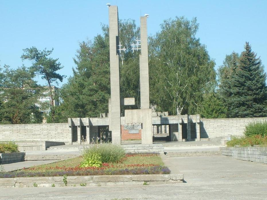 Concentration Camp Memorial Lupolovsky